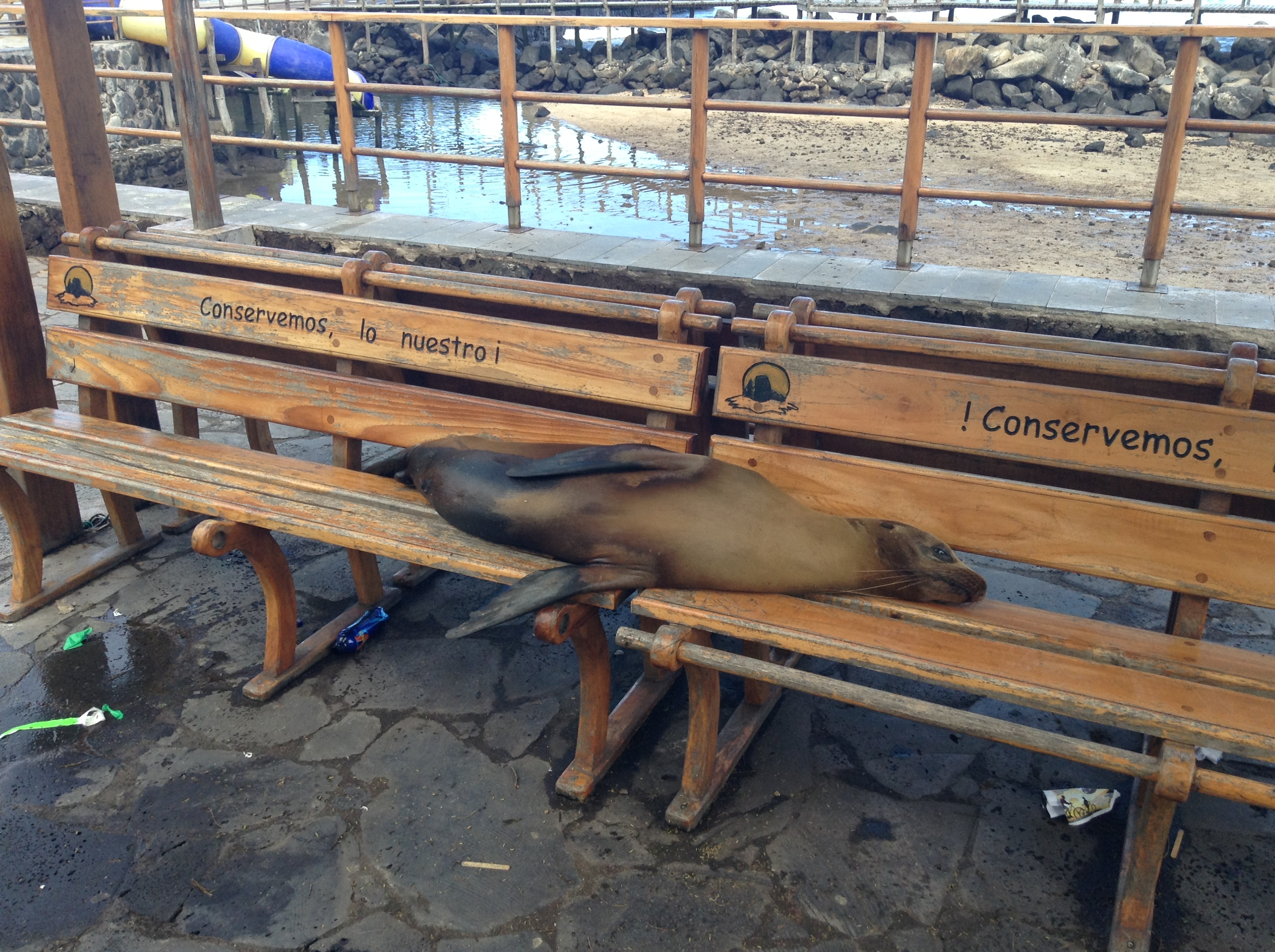 Sea lion sleeping on bench in Puerto Baquerizo Moreno 2013